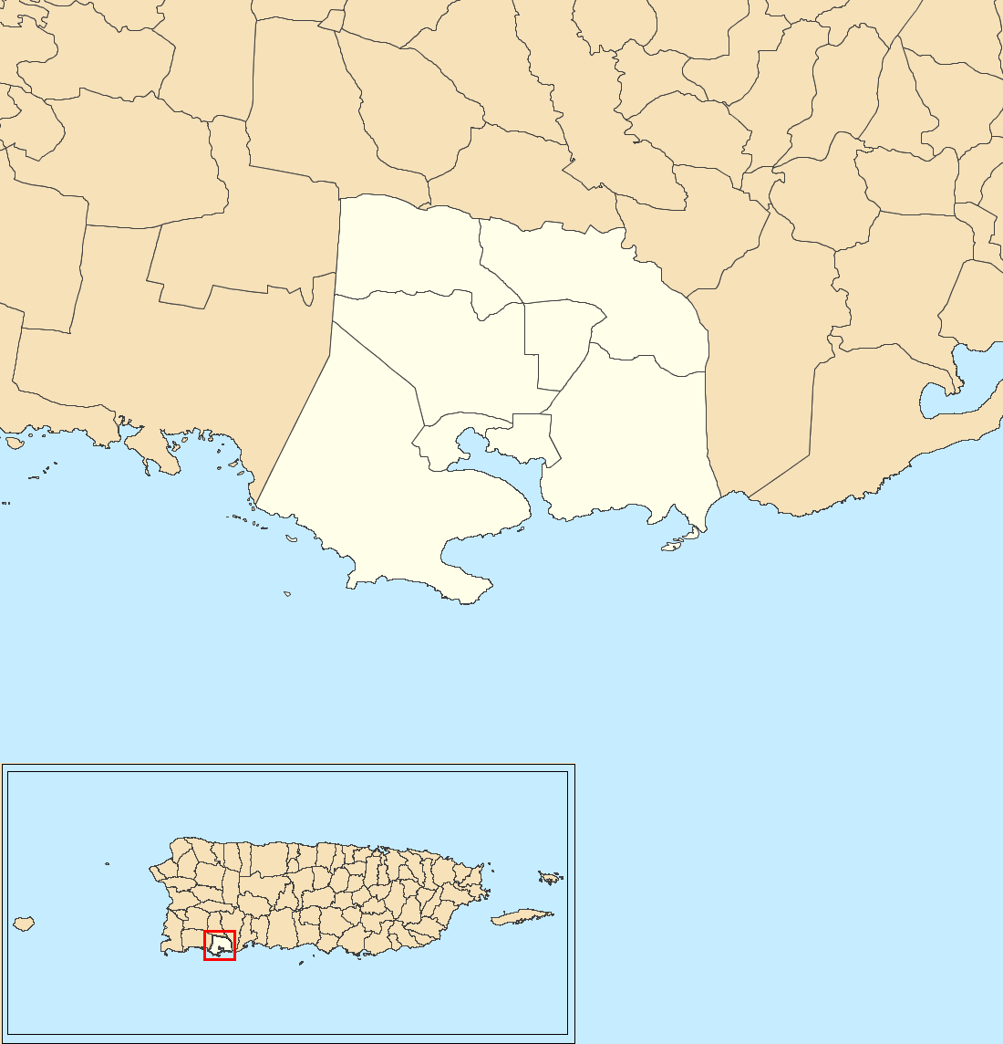 Barrios in the municipality. Map scale is 1:200,000